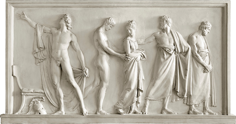 This is one of various scenes recounting episodes from classic epic poetry, for which Canova drew his inspiration from Cesarotti’s translations of Homer. As in the scenes that recount the Death of Socrates, the artist completely eschews narration, eliminates all decorative elements and focuses entirely on tersely rendering the event, with the intention of representing the classical spirit that is the well-spring of his art. This episode, taken from the first canto of the Iliad, depicts Achilles bidding farewell to the slave Briseis, whom Agamemnon has decided to take from him: a decision that will result in Achilles abandoning the Greek camp outside the walls of Troy. The bas-relief was reproduced in an engraving by Tommaso Piroli (engraver) and Vincenzo Camuccini (draughtsman): copperplate etching retouched with burin; 240 x 423 mm. Regarding the Rezzonico bas-reliefs, see entry for Justice.